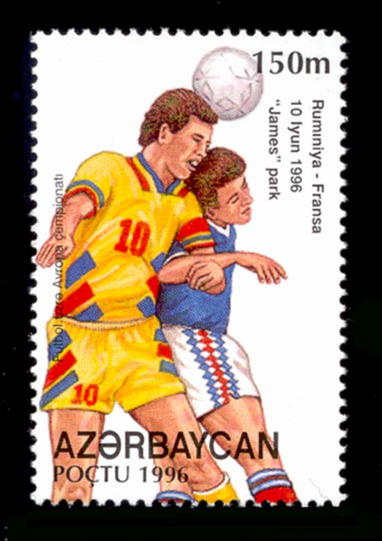 Stamp of Azerbaijan